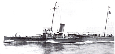 Austro-Hungarian gunboat (SMS Blitz) - copyright expired